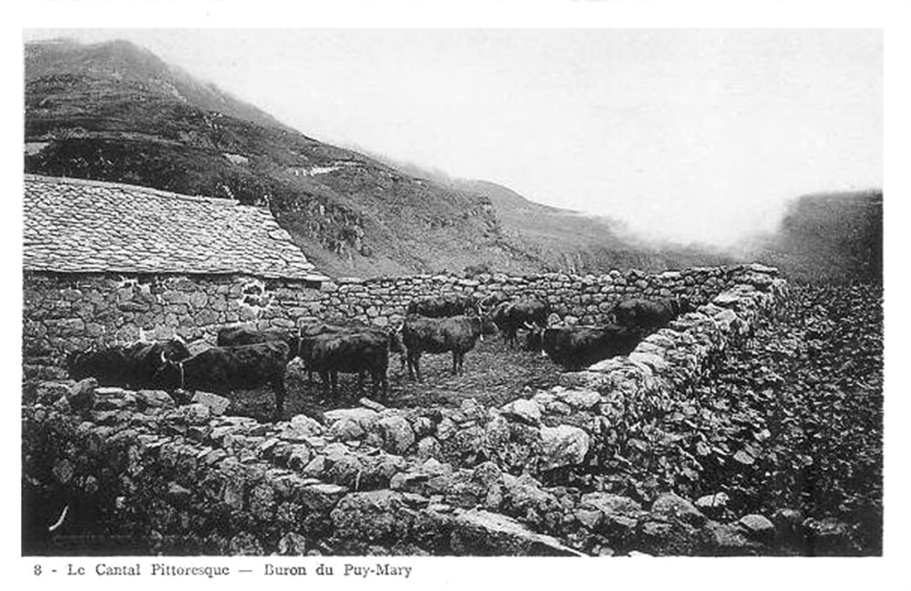 Au début du XXe siècle, buron sur la route du Puy Mary à Salers (Cantal), avec un enclos en pierre sèche attenant où est parquée la petite troupe de vaches ou "vacherie" / In the early 20th century, on the road from Puy Mary to Salers, Cantal, a cheese-making facility and its adjoining dry stone enclosure complete with its herd of cows or "vacherie"